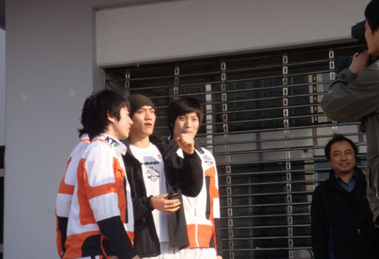 Park Jung Suk